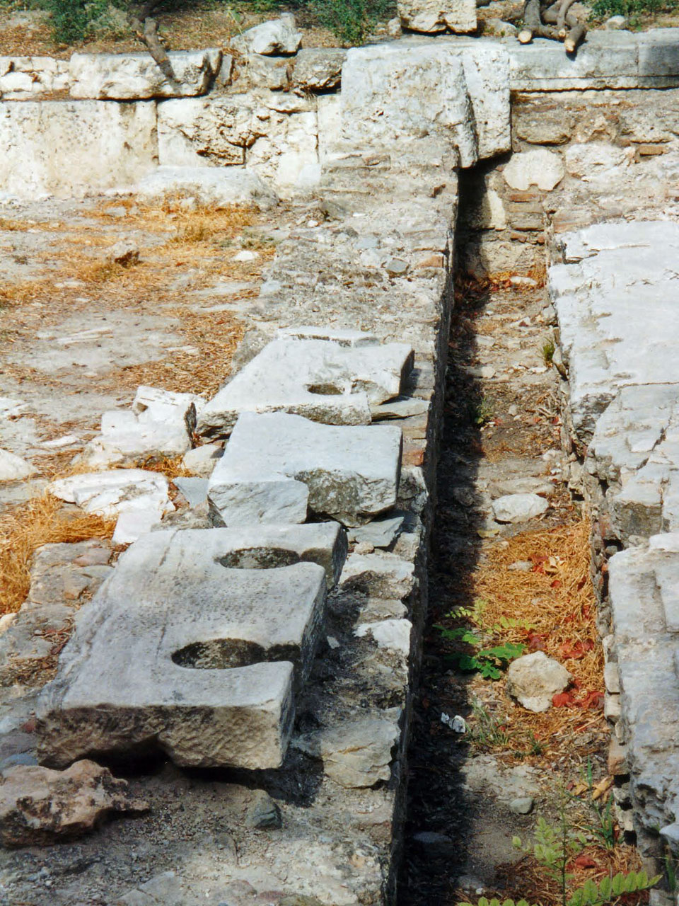 Athens, Toilets in the Roman Agora.